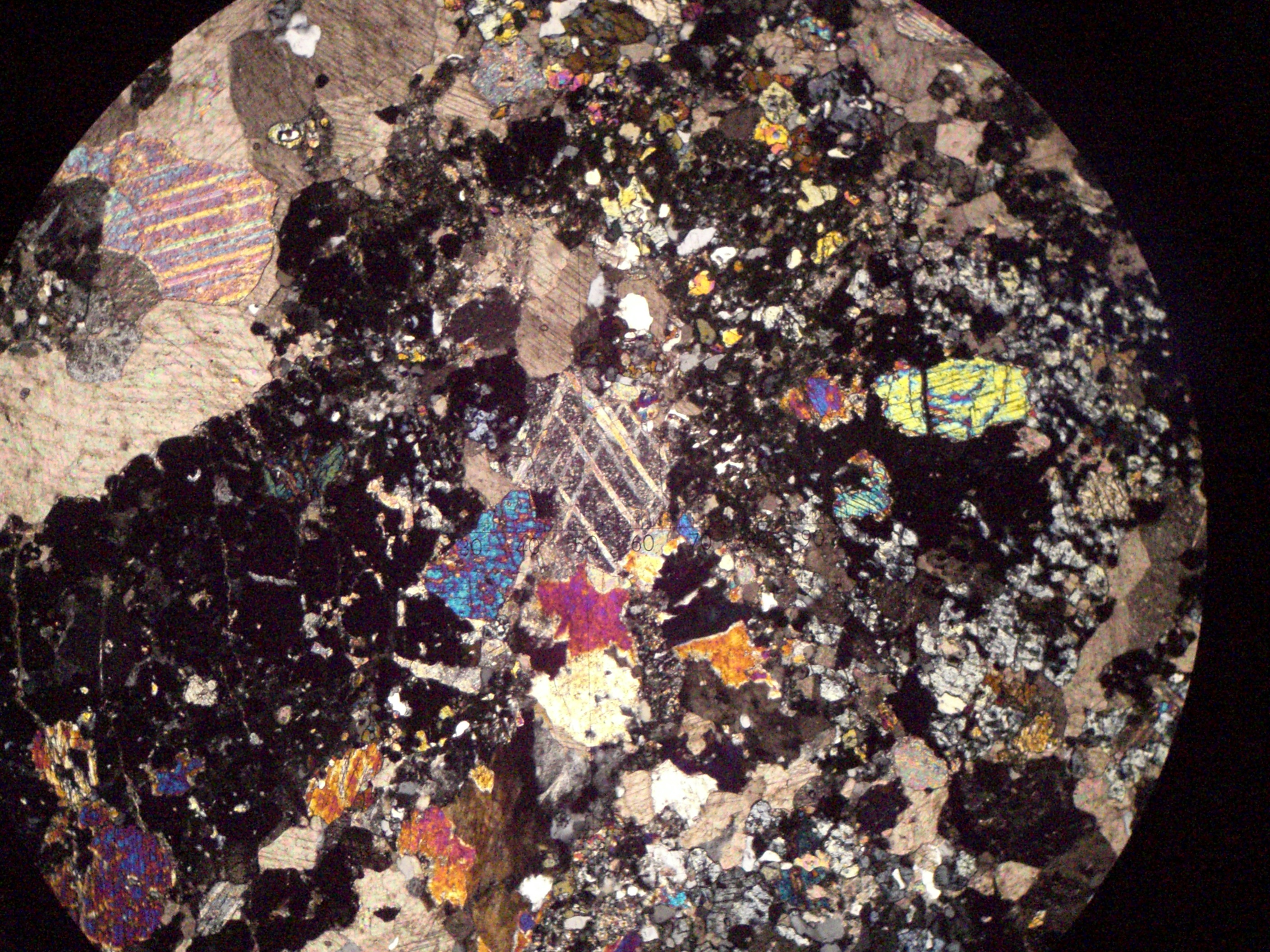 Metamorphic rock Skarn in microscope. Two nicols.